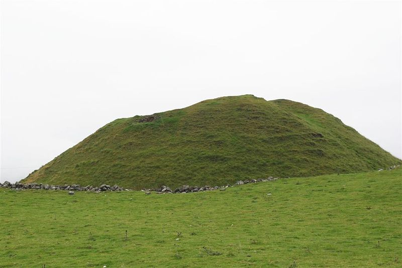 Tomen y Mur, Gwynedd. Mound of motte and bailey castle.